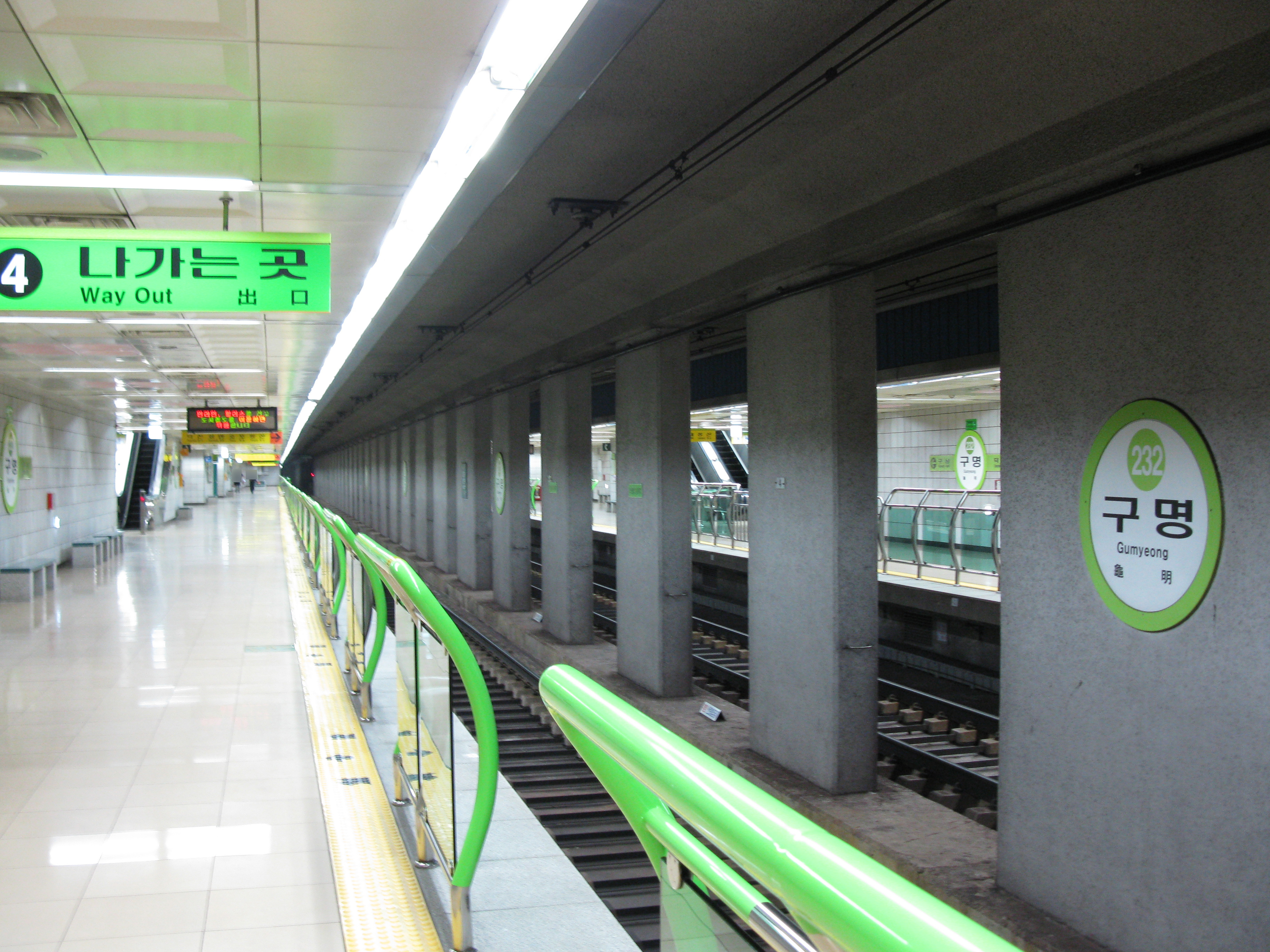 Gumyeong Station platform (Busan Subway Line 2)